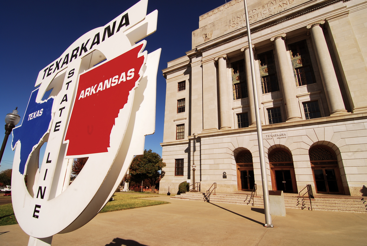 Texarkana Post Office in Nov 2011